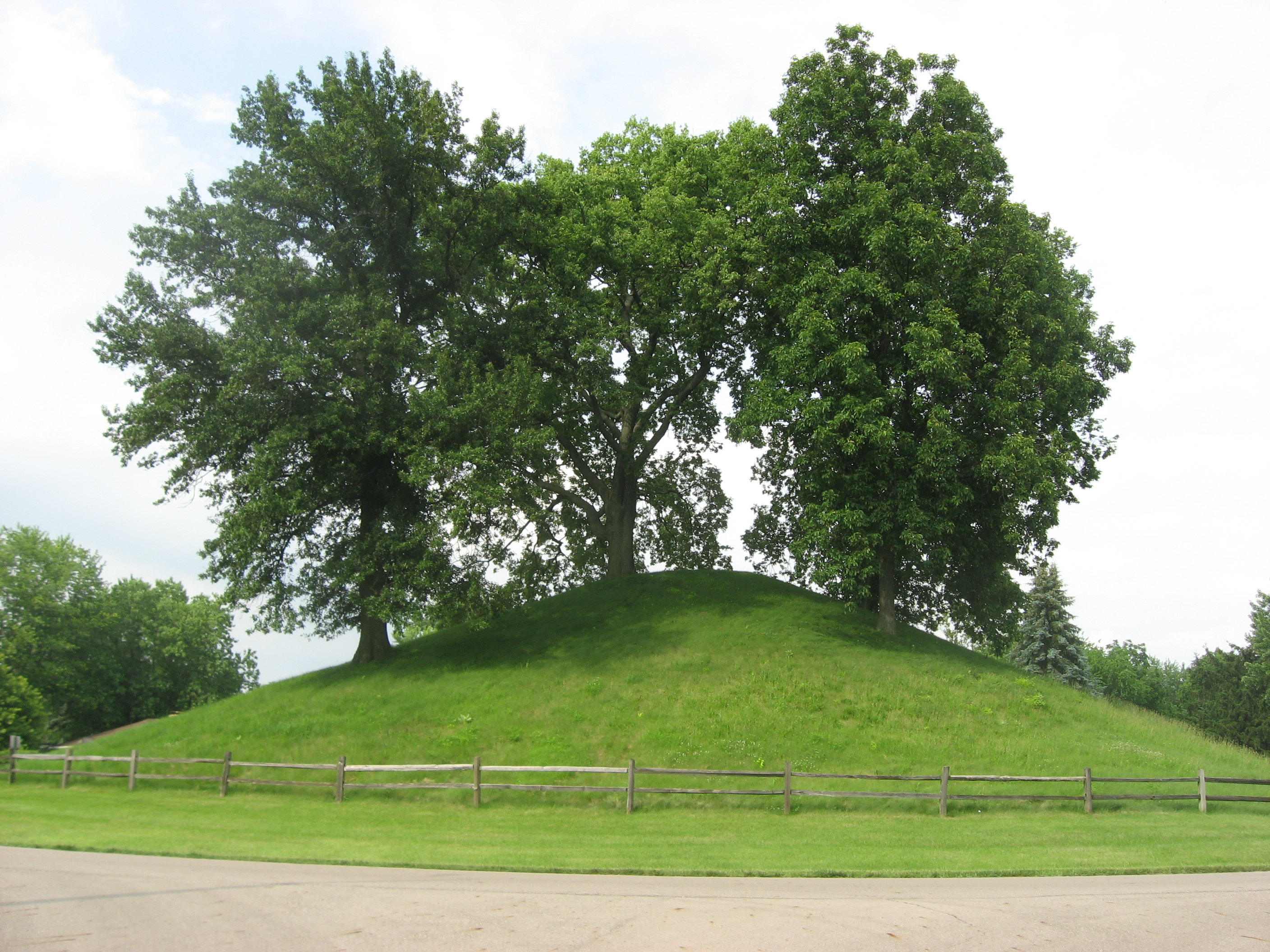 Western side of the Enon Mound, located inside of Mound Circle in Enon, Ohio, United States. Built by the prehistoric Adena culture, it is listed on the National Register of Historic Places.